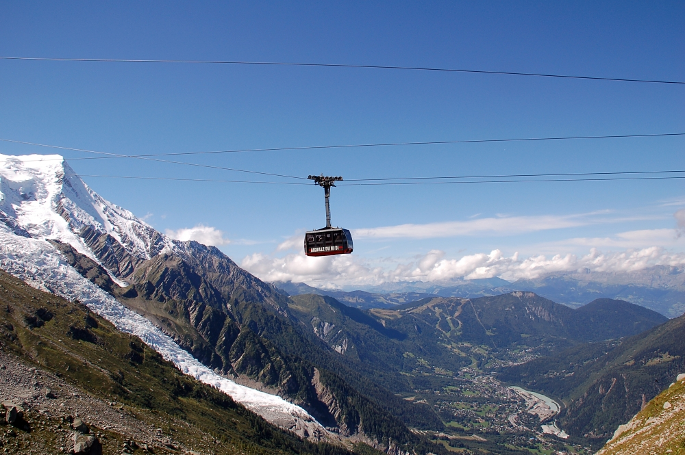 Aerial lift, from Chamonix up to Aiguille du Midi, Haute-Savoie, France